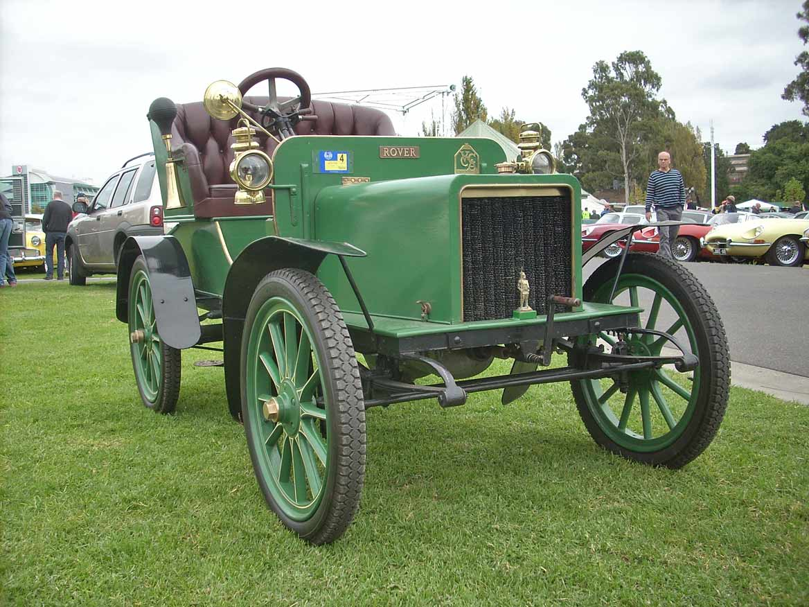 1905 Rover 6 hp open 2-seater single-cylinder 780 cc RACV Great Australian Rally 2011